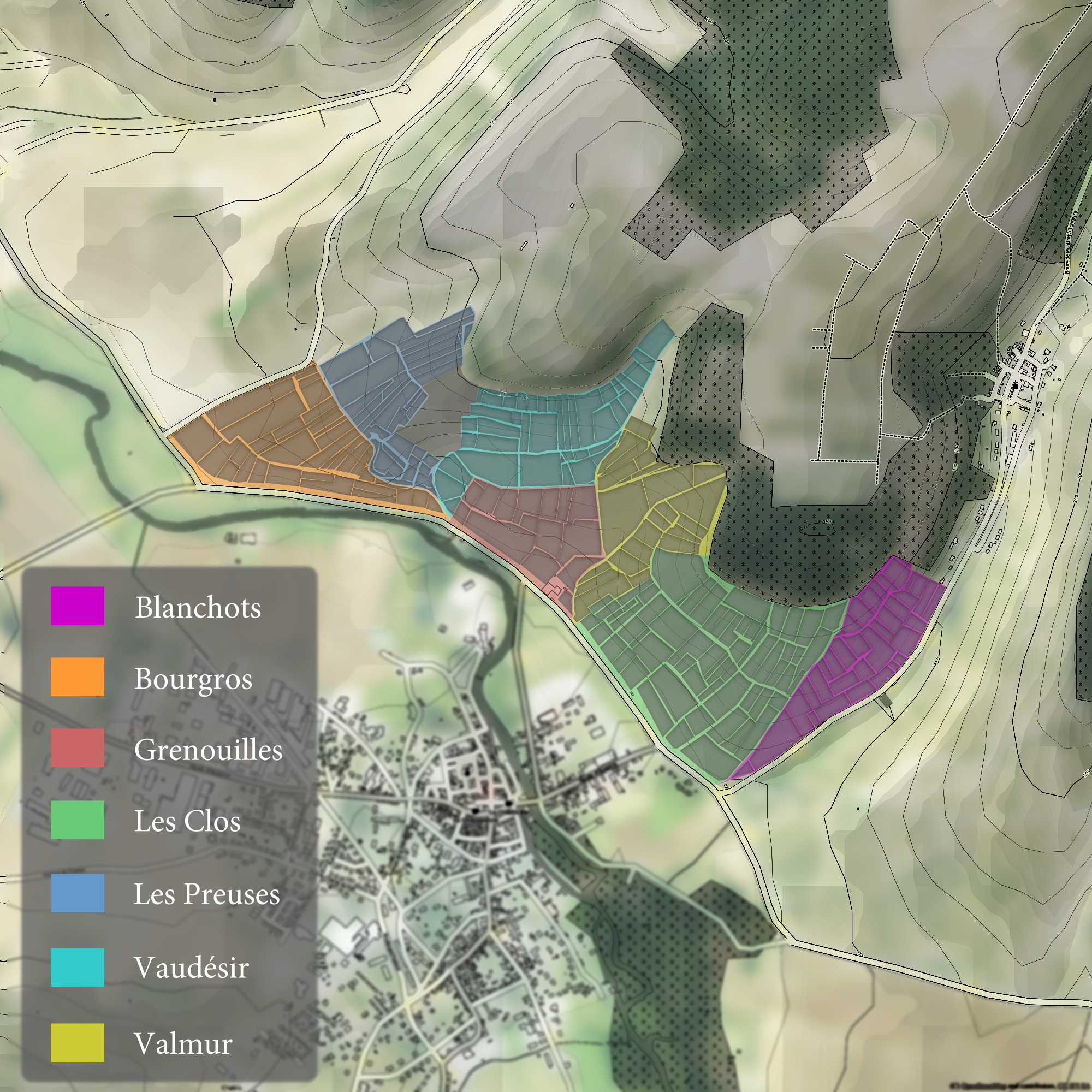 The Grand Crus Of Chablis with its vineyards This map of Chablis was created from OpenStreetMap project data, collected by the community. This map may be incomplete, and may contain errors. Don't rely solely on it for navigation.